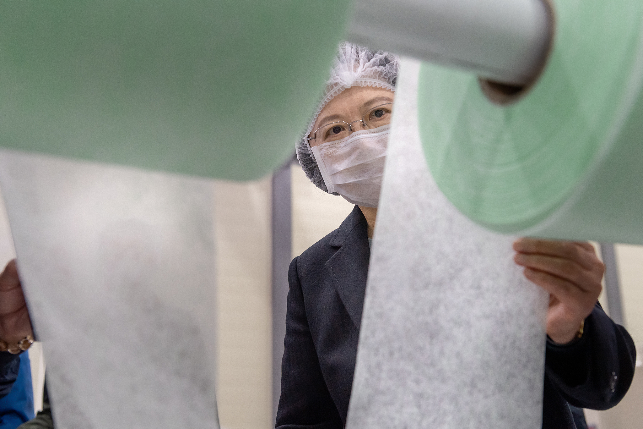 Official Photo by Makoto Lin / Office of the President